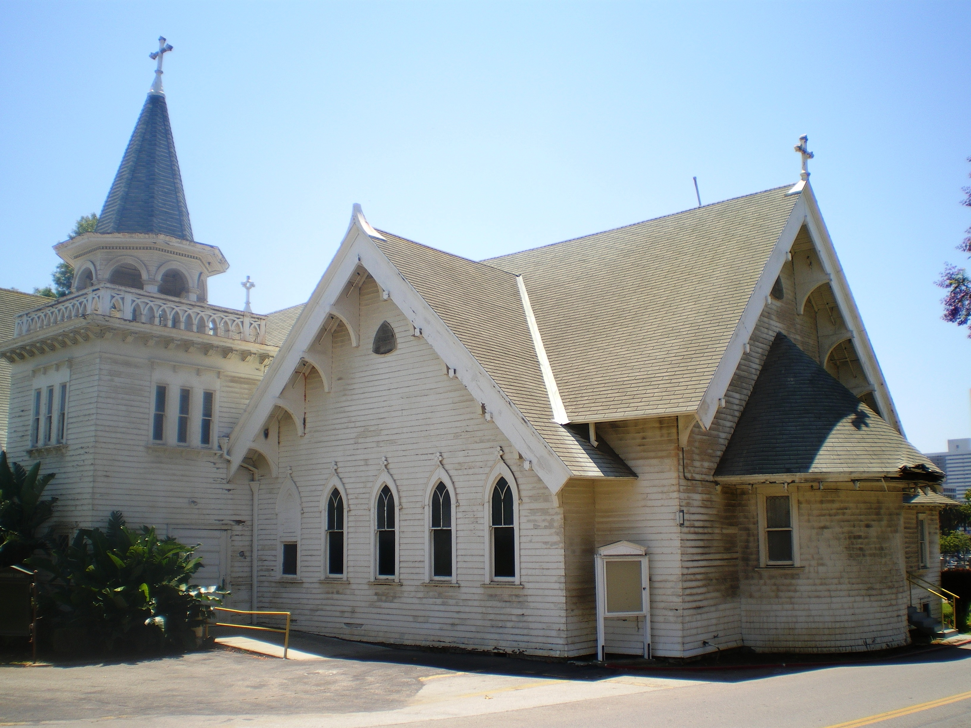 Wadsworth Chapel, Catholic Side, West Los Angeles